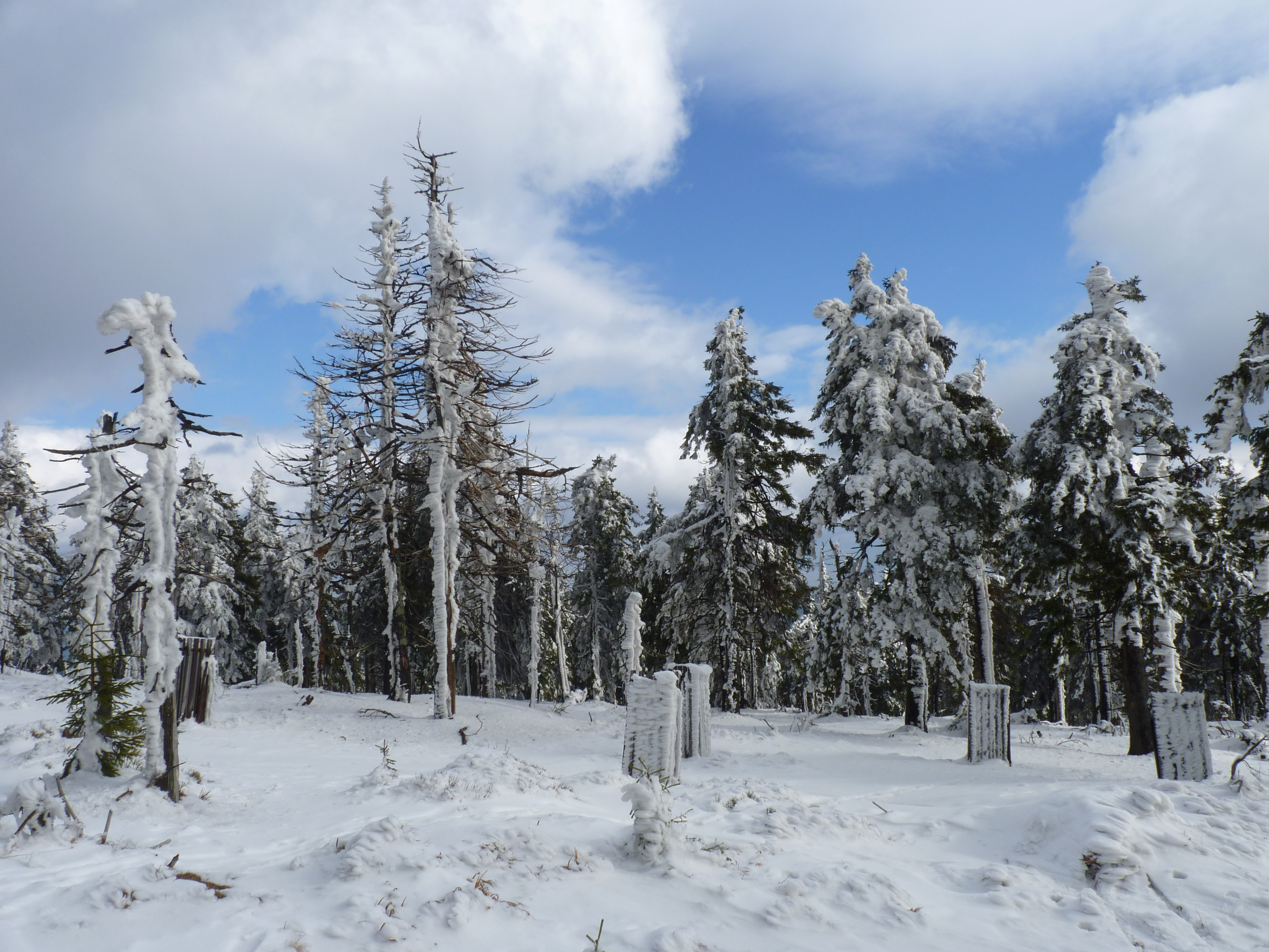 Nature reserve Snezna kotlina, Jesenik District, Olomouc Region, Czech Republic Project: Chráněná území